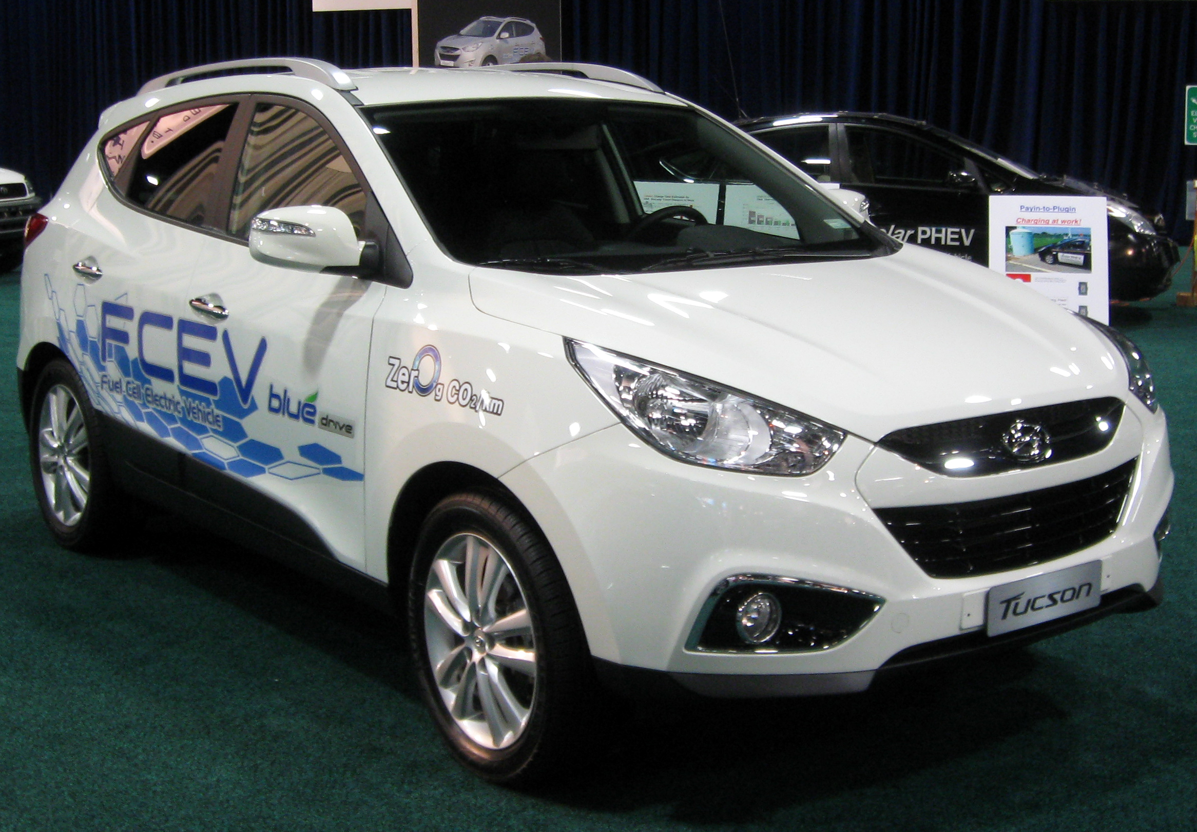 Hyundai Tucson FCEV photographed in Washington, D.C., USA.